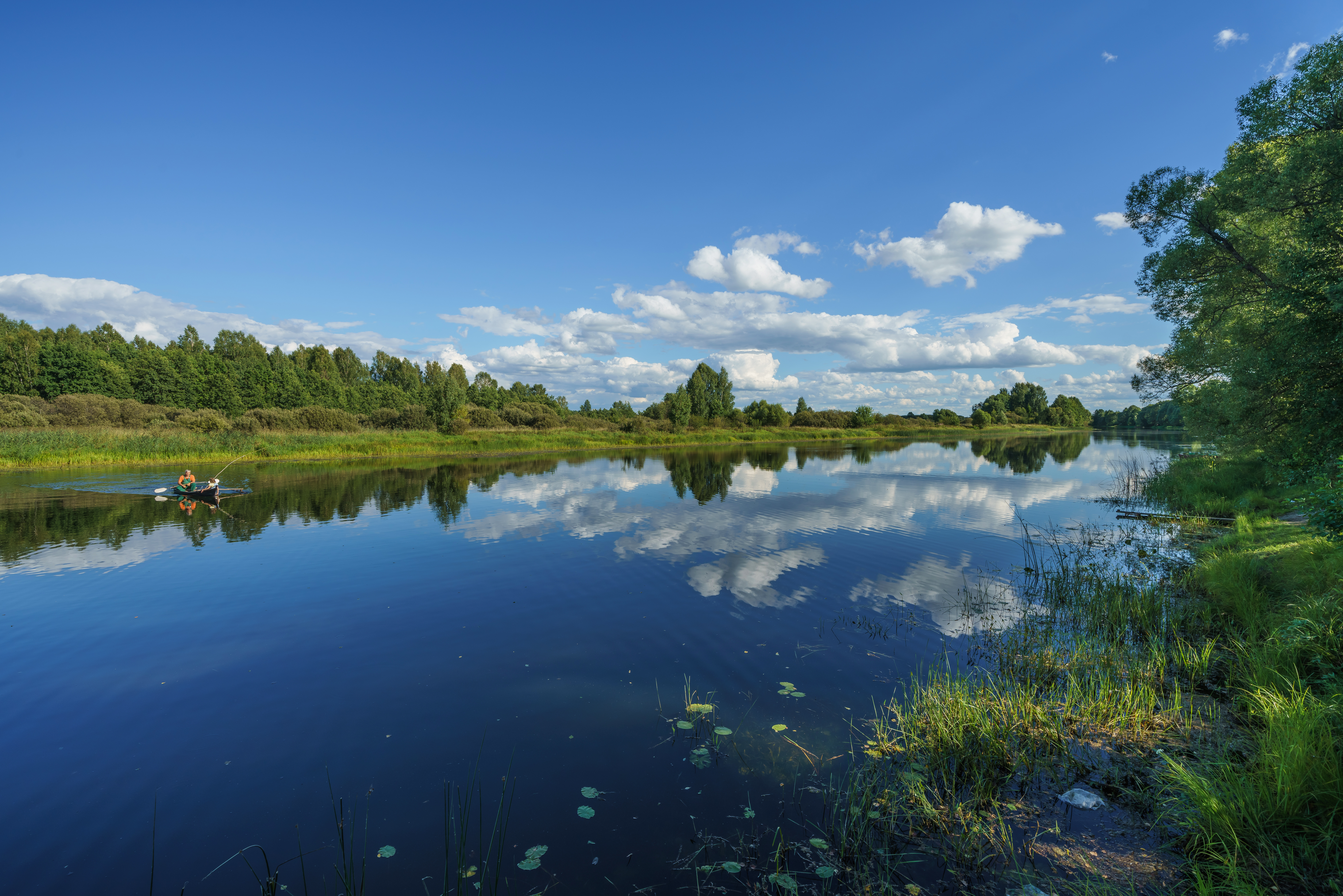 Lukh River at Khudynskoye, Ivanovo Oblast, Russia.